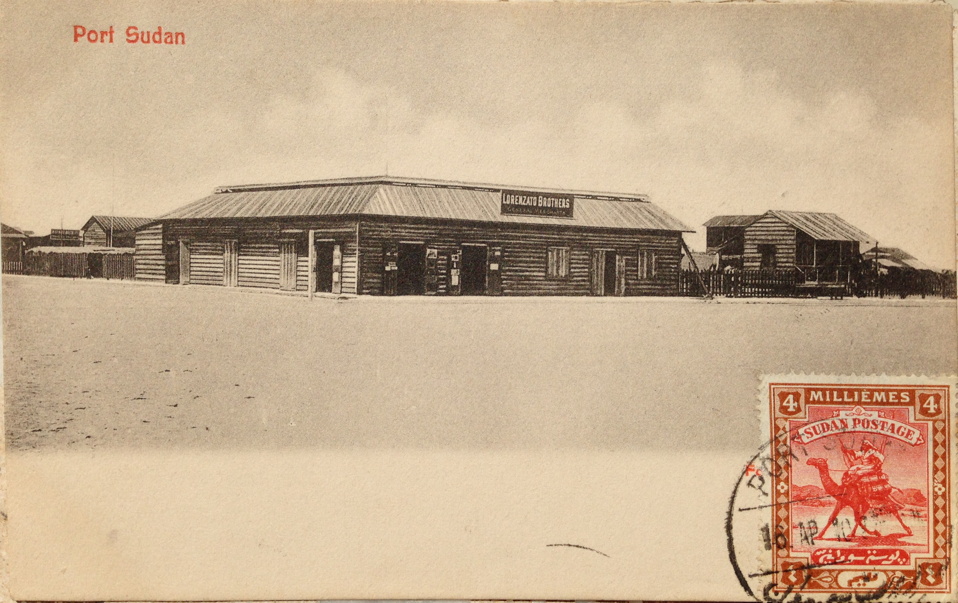 Vintage postcard of Port Sudan from the 1900s, photo depicting the "Lorenzato Brothers" store, which also hosted a popular bar known as "Lorenzato Corner" until 1937